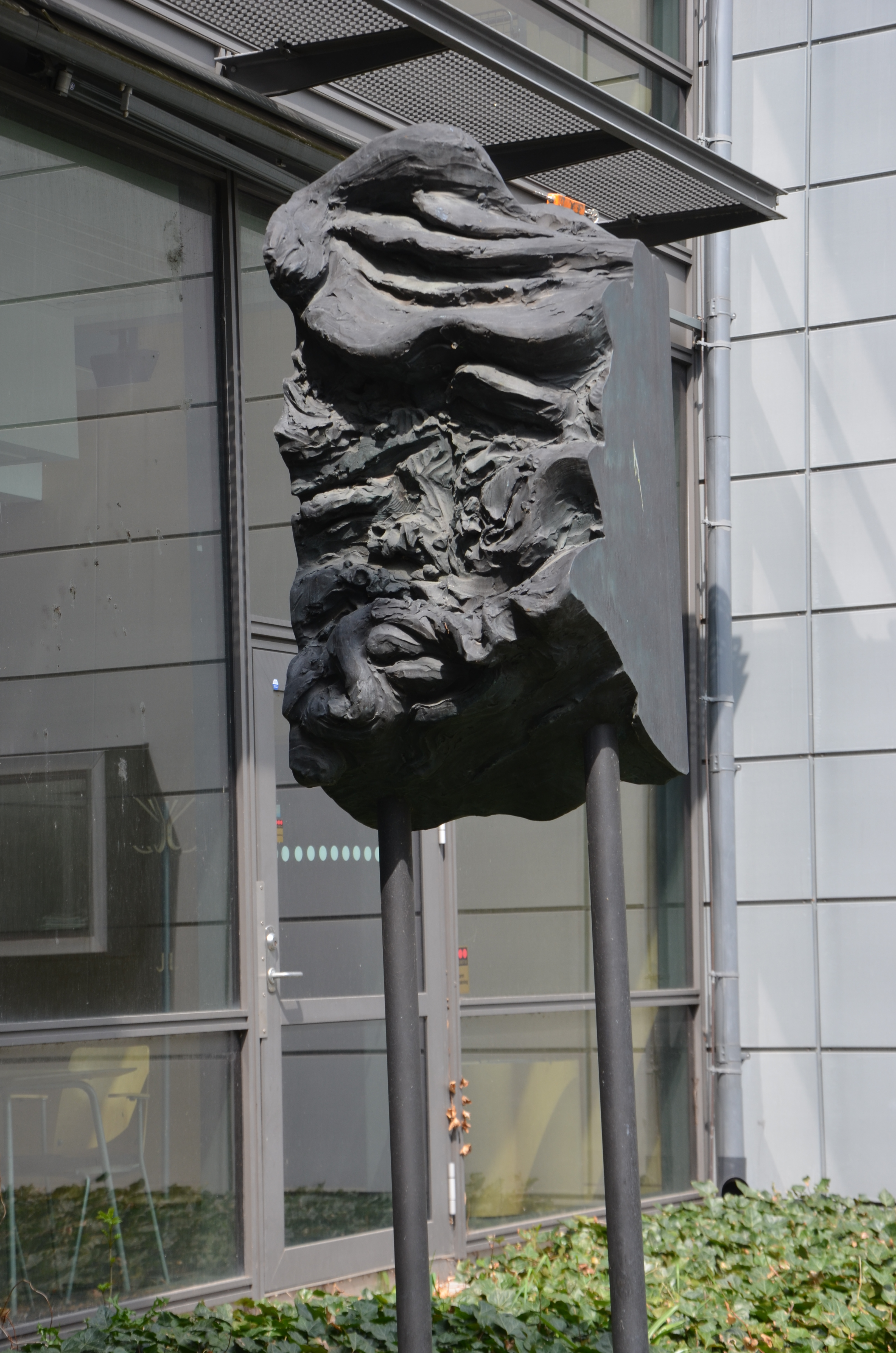 Kirsten Ortwed's Section, 2004, Sölvegatan vid Språkcentrum, Lund